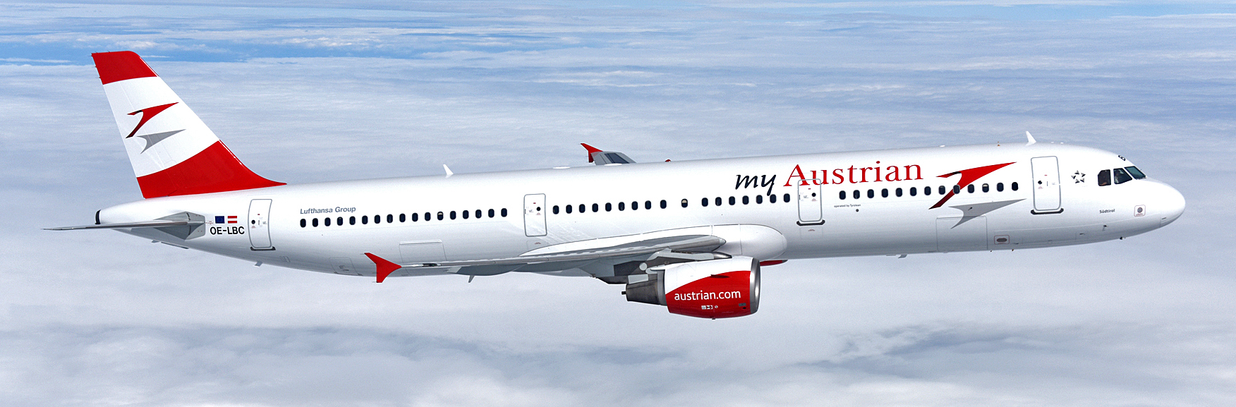 Airbus A321 (OE-LBC) in My Austrian livery